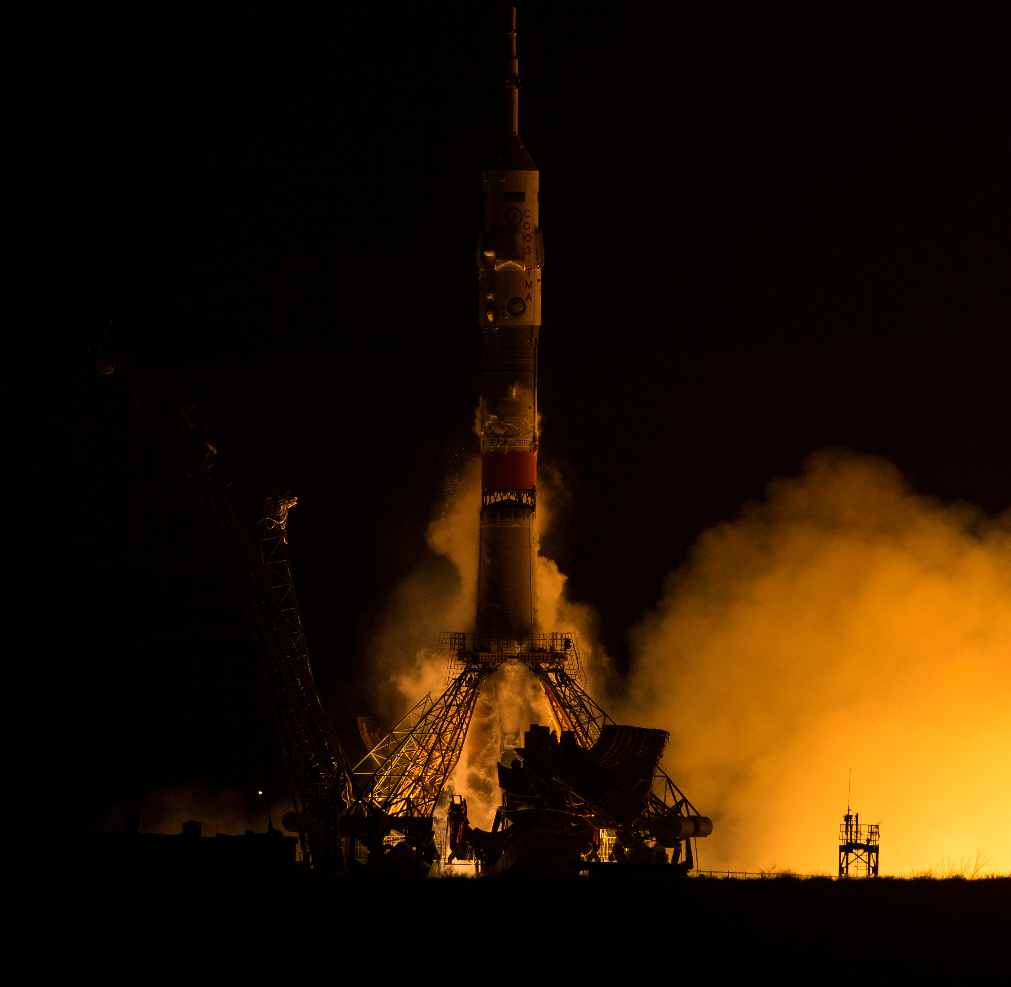 The Soyuz TMA-20M rocket launches from the Baikonur Cosmodrome in Kazakhstan on Saturday, March 19, 2016 carrying Expedition 47 Soyuz Commander Alexey Ovchinin of Roscosmos, Flight Engineer Jeff Williams of NASA, and Flight Engineer Oleg Skripochka of Roscosmos into orbit to begin their five and a half month mission on the International Space Station.